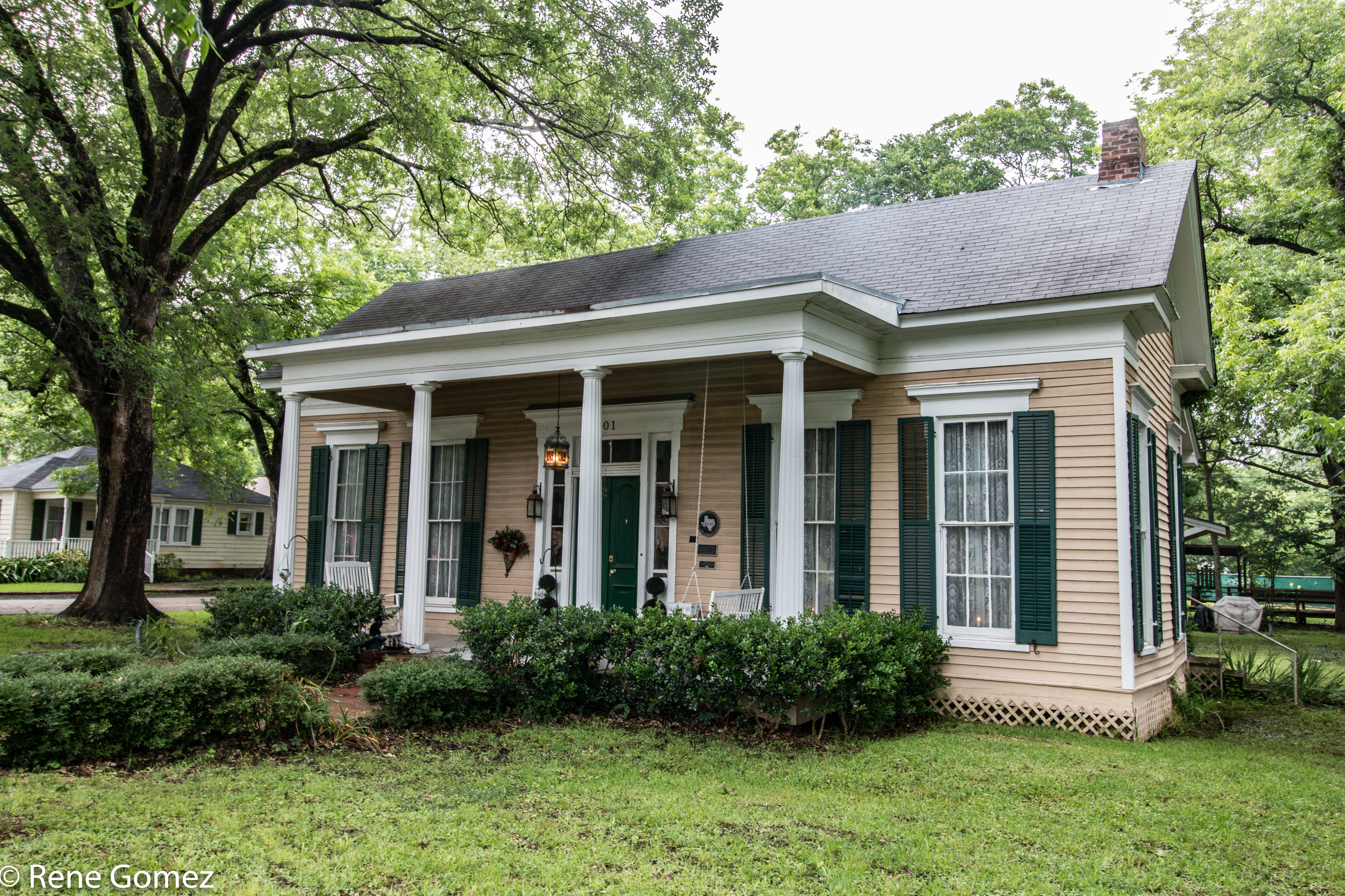 Alley-Carlson House in Jefferson, Texas